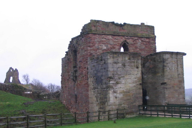 The entrance to Tutbury Castle